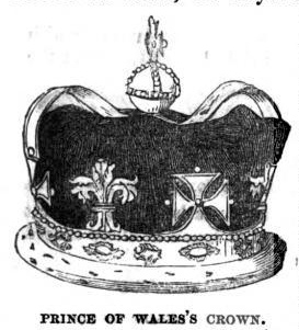 Crown Jewels / The old Prince of Wales Crown 1729